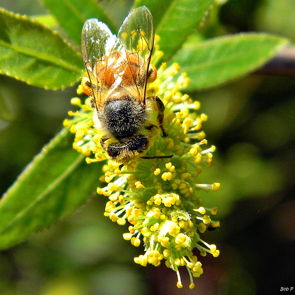 Time again to celebrate the willows blooming in the enchanted willow marsh at Juno Dunes! This year a bit earlier than usual...last year I photographed them in February. The golden honey bees were back & busily foraging while I hung over the boardwalk railing trying to photograph them in the wind. This rather unique freshwater marsh is only a few hundred yards from the ocean and the sound of waves breaking is carried on the sea breeze. The Coastal plain willow blooms in early Spring. Spring comes very early here!